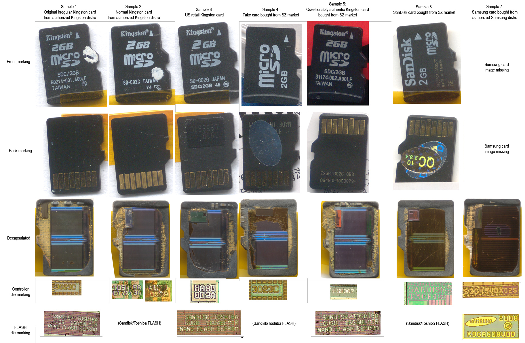 Images of 7 microSD (Secure Digital) cards before and after decapsulation. Further description at source.